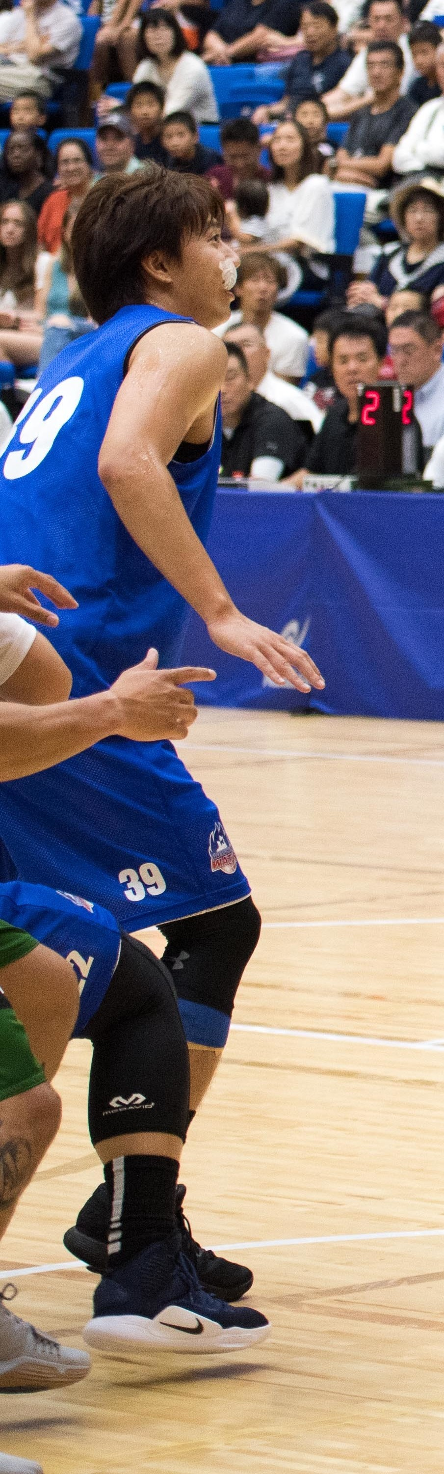 U.S. Air Force Senior Airman Sterling Tate, a Misawa Jets player and 35th Civil Engineer Squadron firefighter, rumbles forward during a layup attempt as part of the Aomori Wat’s and Misawa Jets exhibition game at the Misawa International Sports Center in Misawa City, Japan, Aug. 18, 2018. Through four sweaty periods of play, Misawa’s team of 11 from various backgrounds and career fields came together showcasing American esprit de corps and sportsmanship. (U.S. Air Force photo by Tech. Sgt. Benjamin W. Stratton)